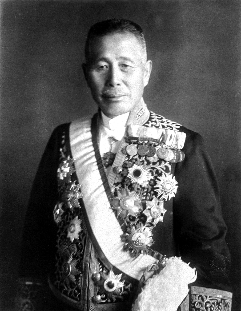 Portrait of Tanaka Giichi (田中義一, 1864 – 1929)